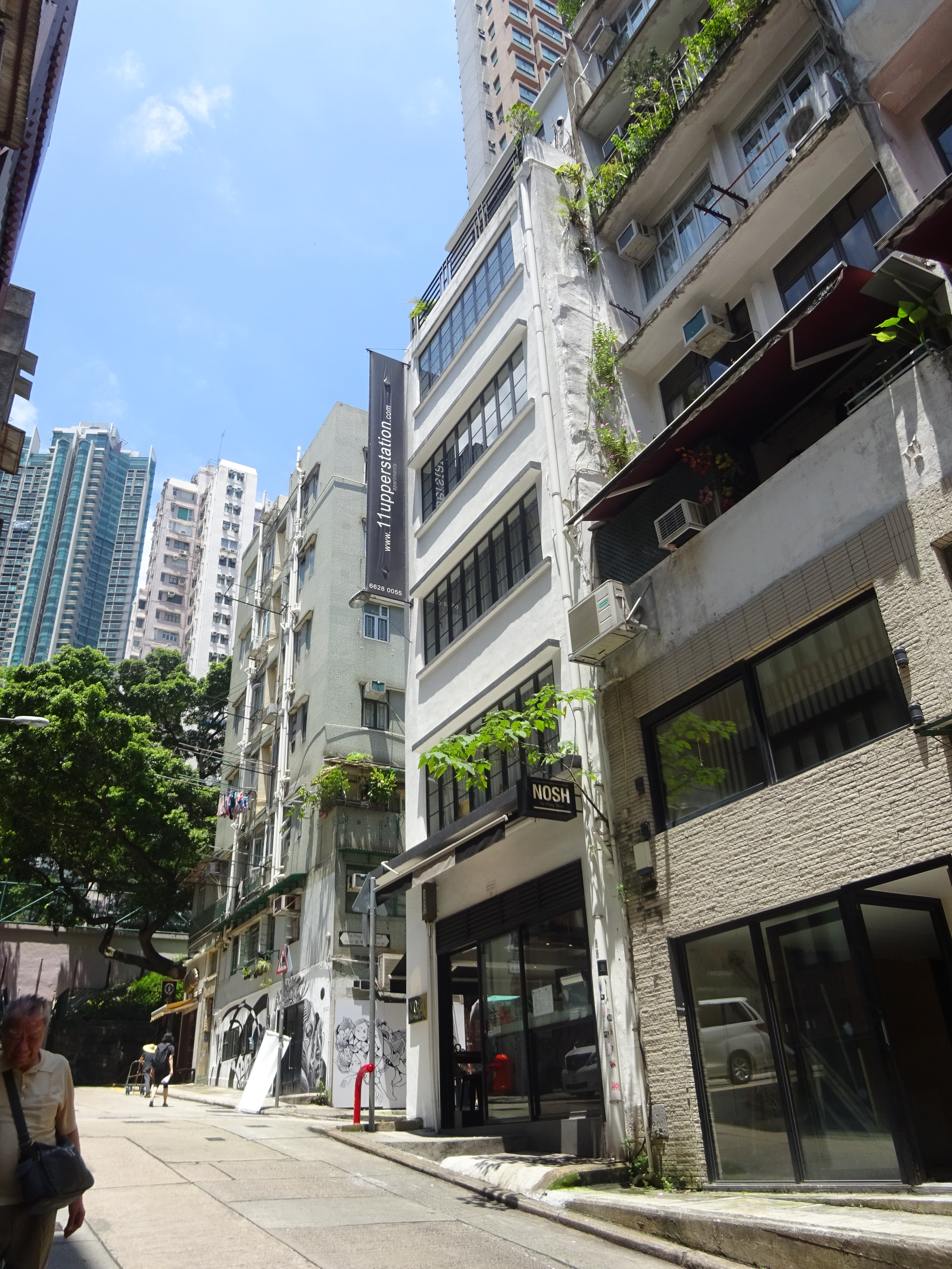 HK Sheung Wan 上環 差館上街 Upper Station Street shop Crafty Cow restaurant in July 2016 carparking Mercedes-Benz